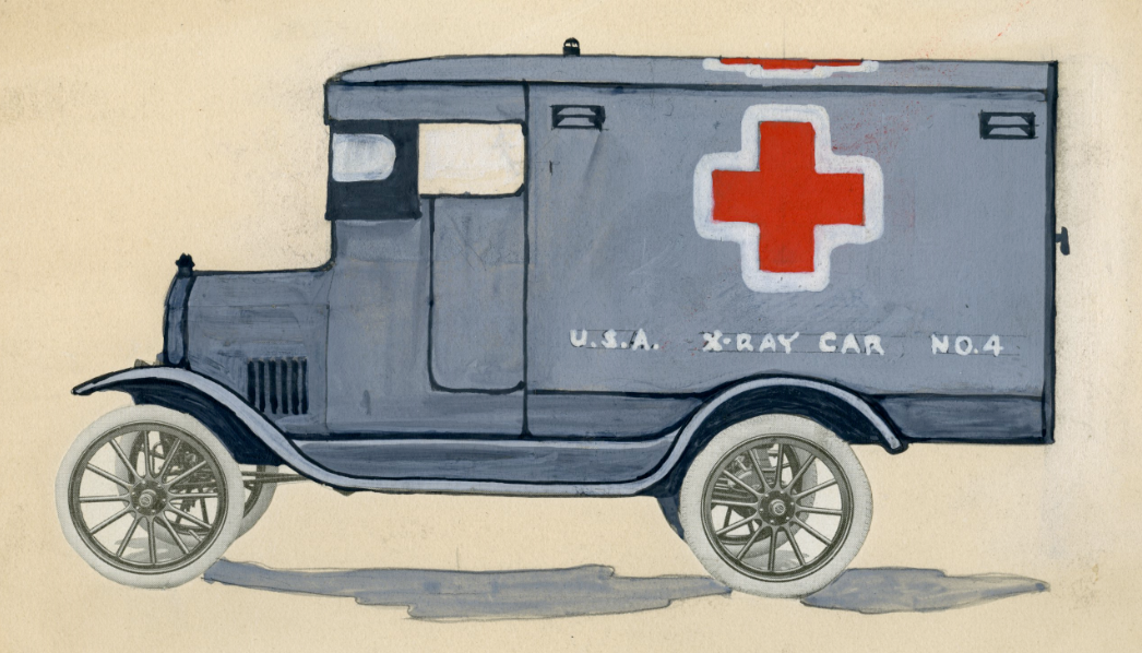 Henry Lyman Sayen's drawing of his design for an X-ray ambulance to be built on a 1917 Ford chassis with a 100 inch wheel base. The ambulance was to be used by American volunteers in France.